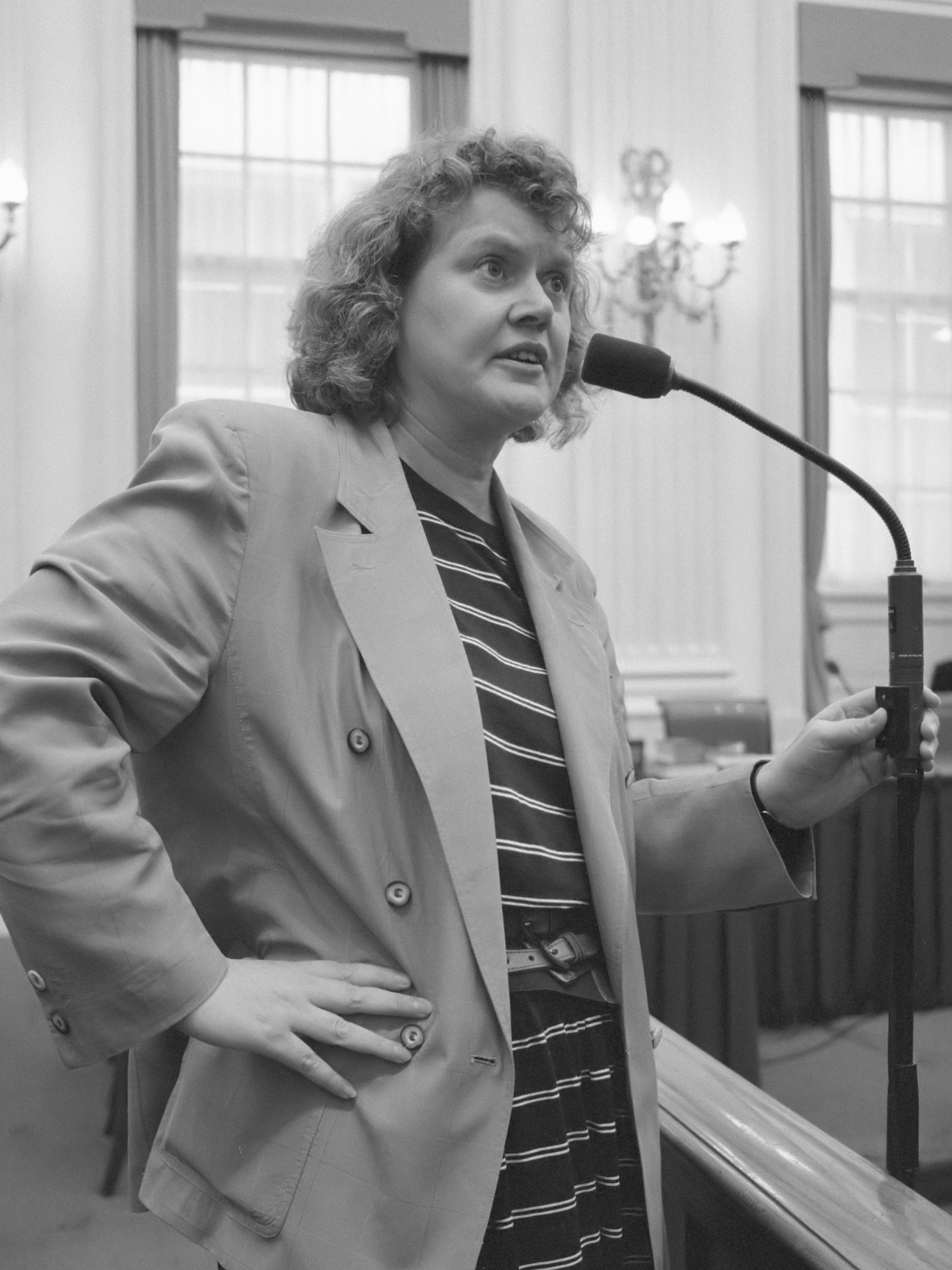 Jeltje van Nieuwenhoven (PvdA) stelt vragen 26 september 1989